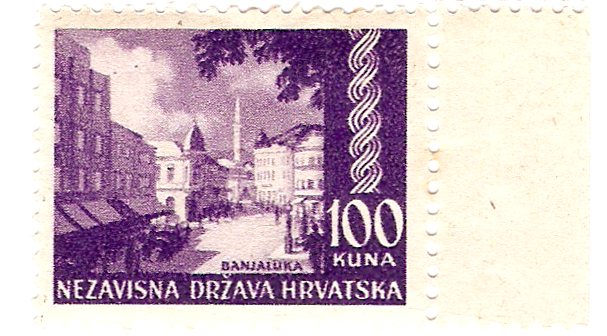 Stamp of NDH, 1942